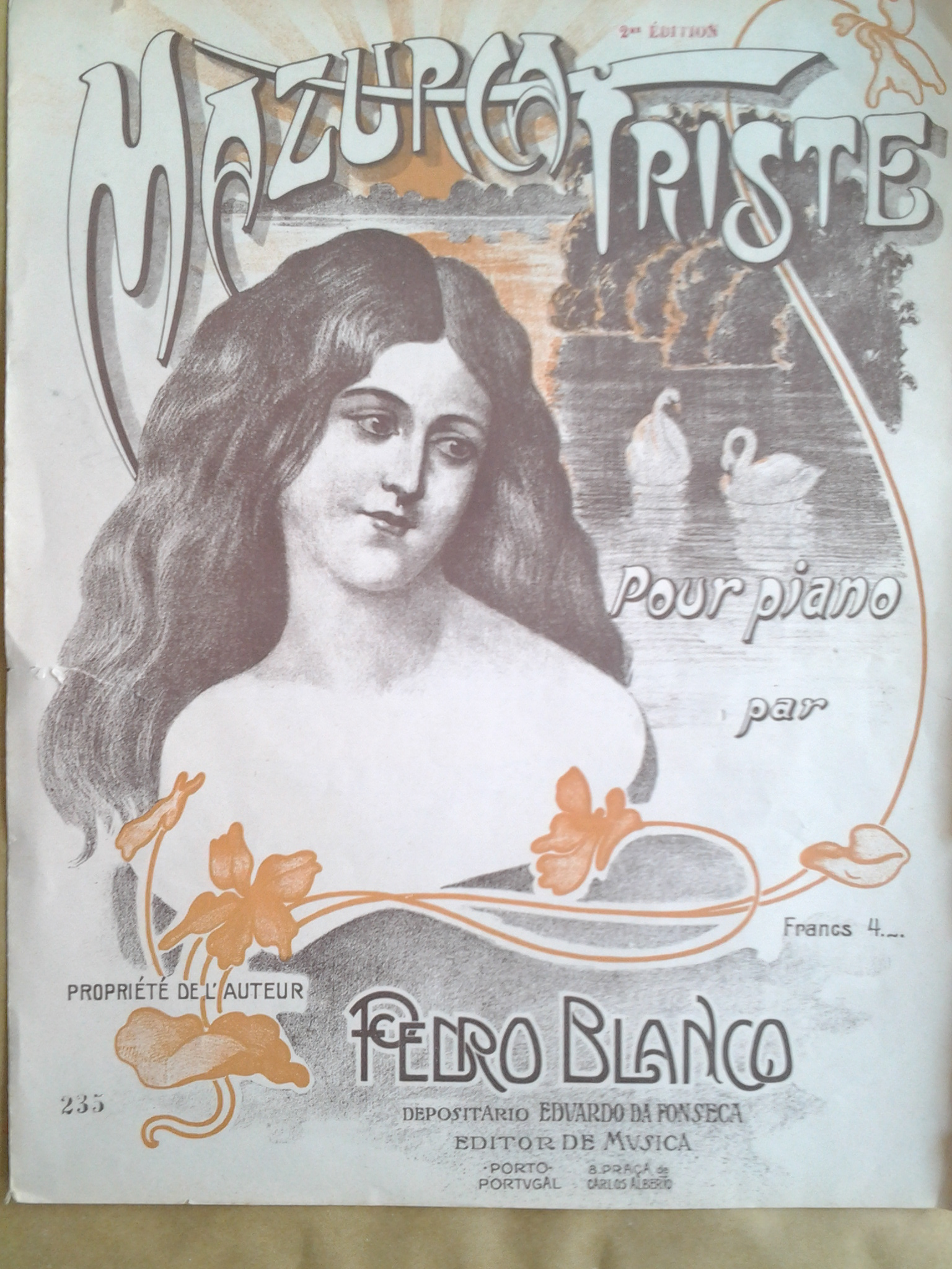 "Mazurca triste", composition by Pedro Blanco